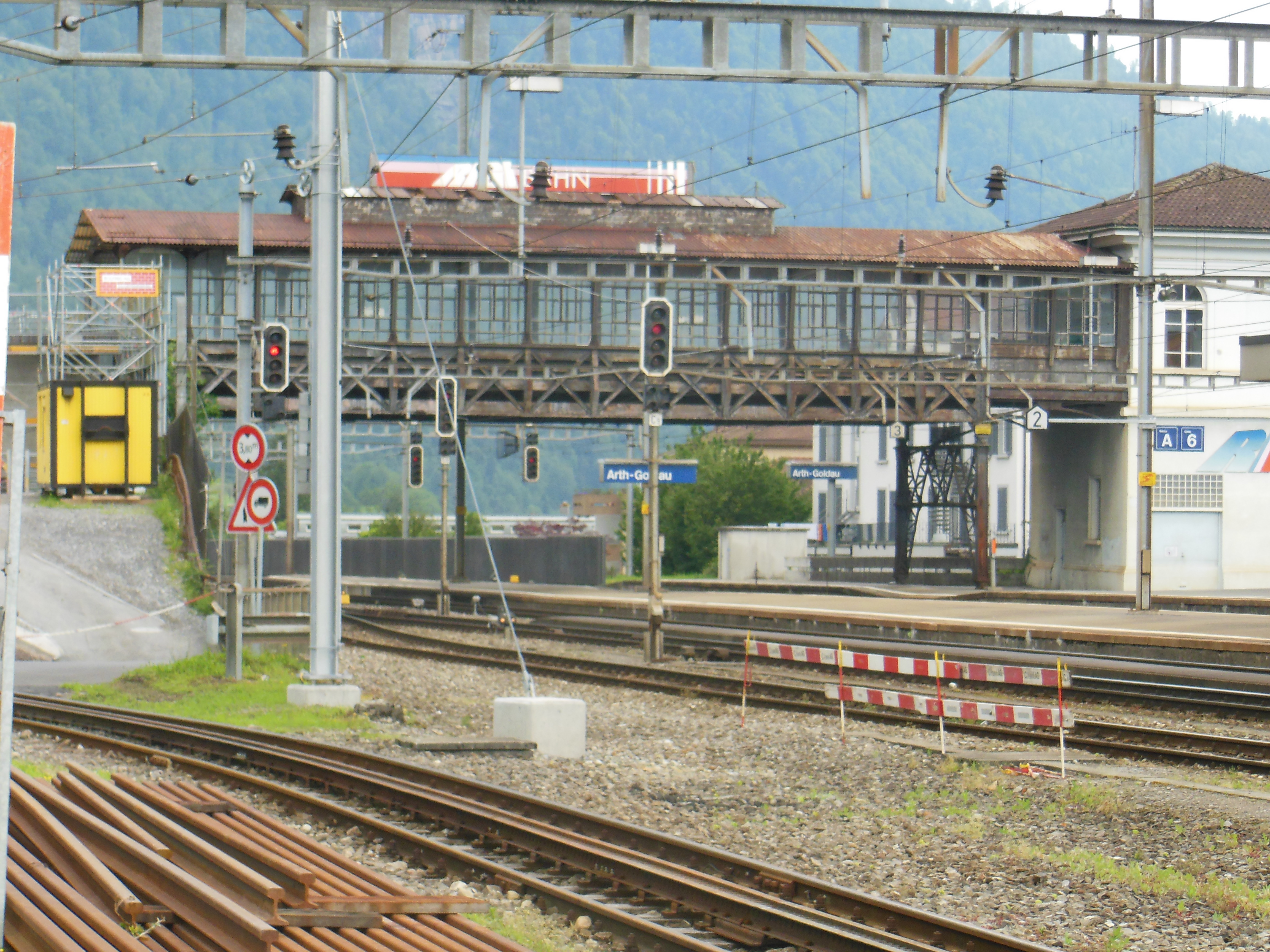 The platform of the Arth-Rigi Bahn, above and at right angles to the main line platforms at Arth-Goldau station in Switzerland. For more information, see the Wikipedia articles Arth-Goldau railway station and Rigi-Bahnen.